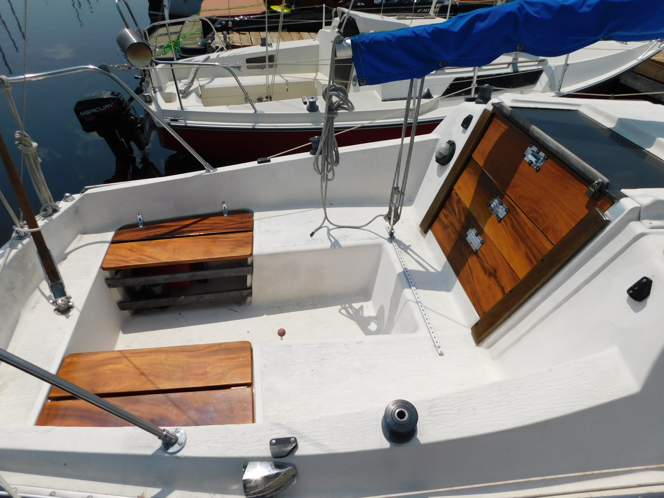 A Challenger 24 sailboat named Alcyone, showing the cockpit configuration.